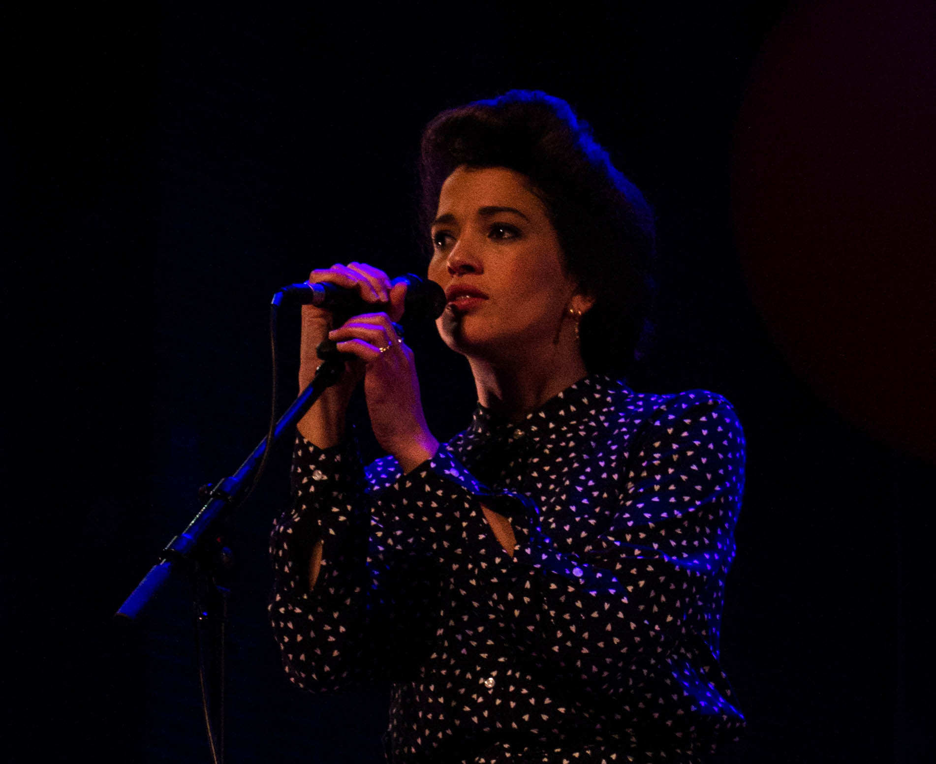 Kris Berry performing at TEDxAmsterdam